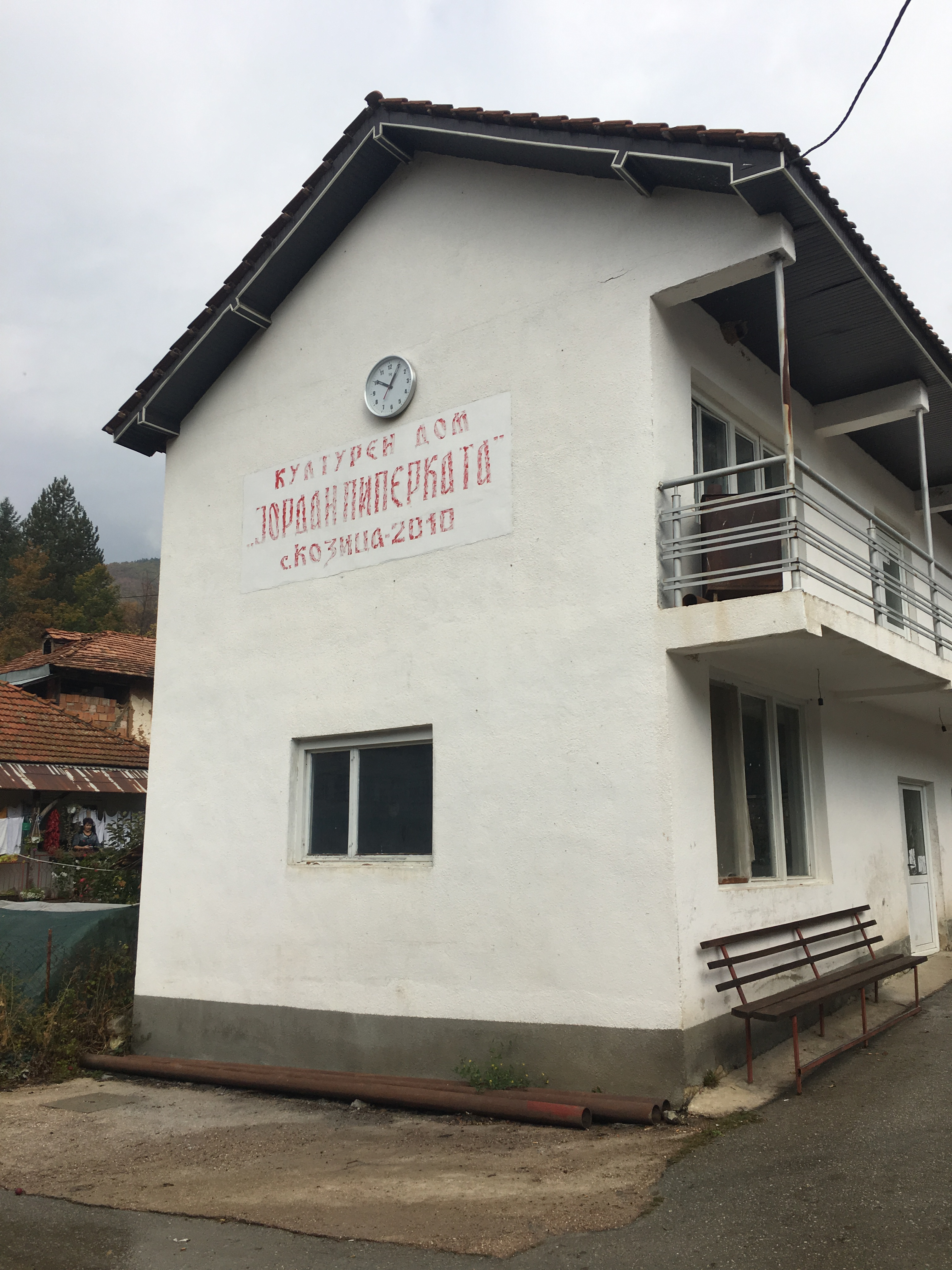 Wikiexpedition to Kopačka